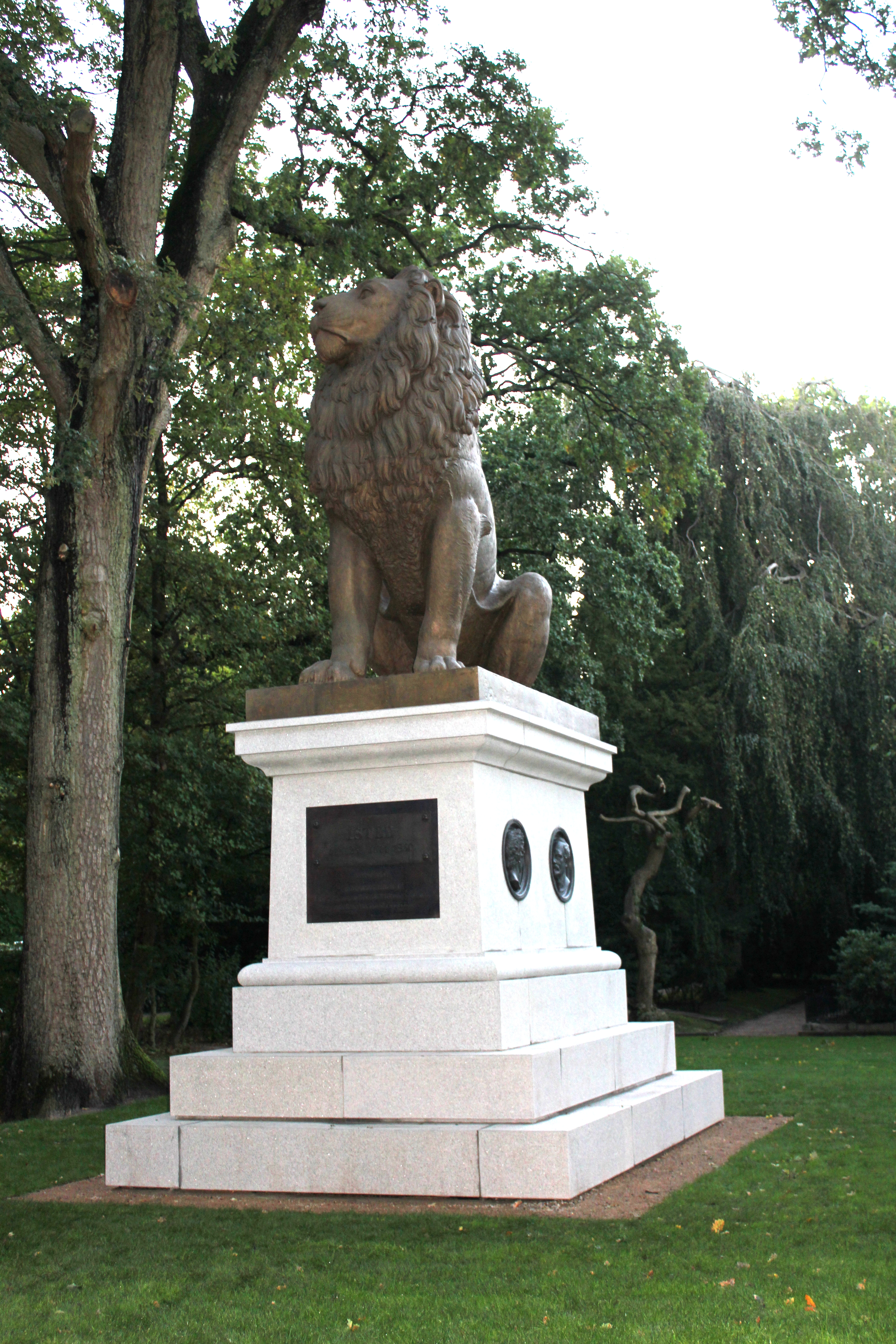 Flensburg Lion or Isted Lion in Flensburg placed on the Alter Friedhof (Old Cemetery). Photo taken in the evening of the 8 september 2011 (7:48 p.m.) -- before the official unveiling ceremony -- brightness and contrast changed.